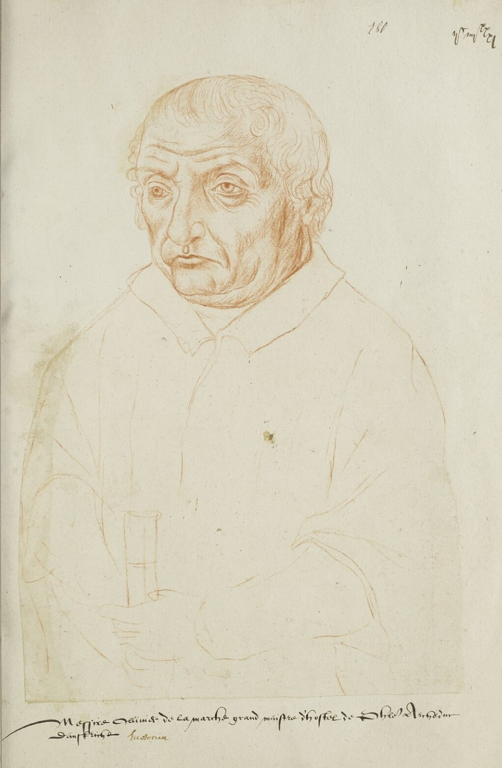 Olivier de la Marche (1425-1502), contemporary portrait sketch